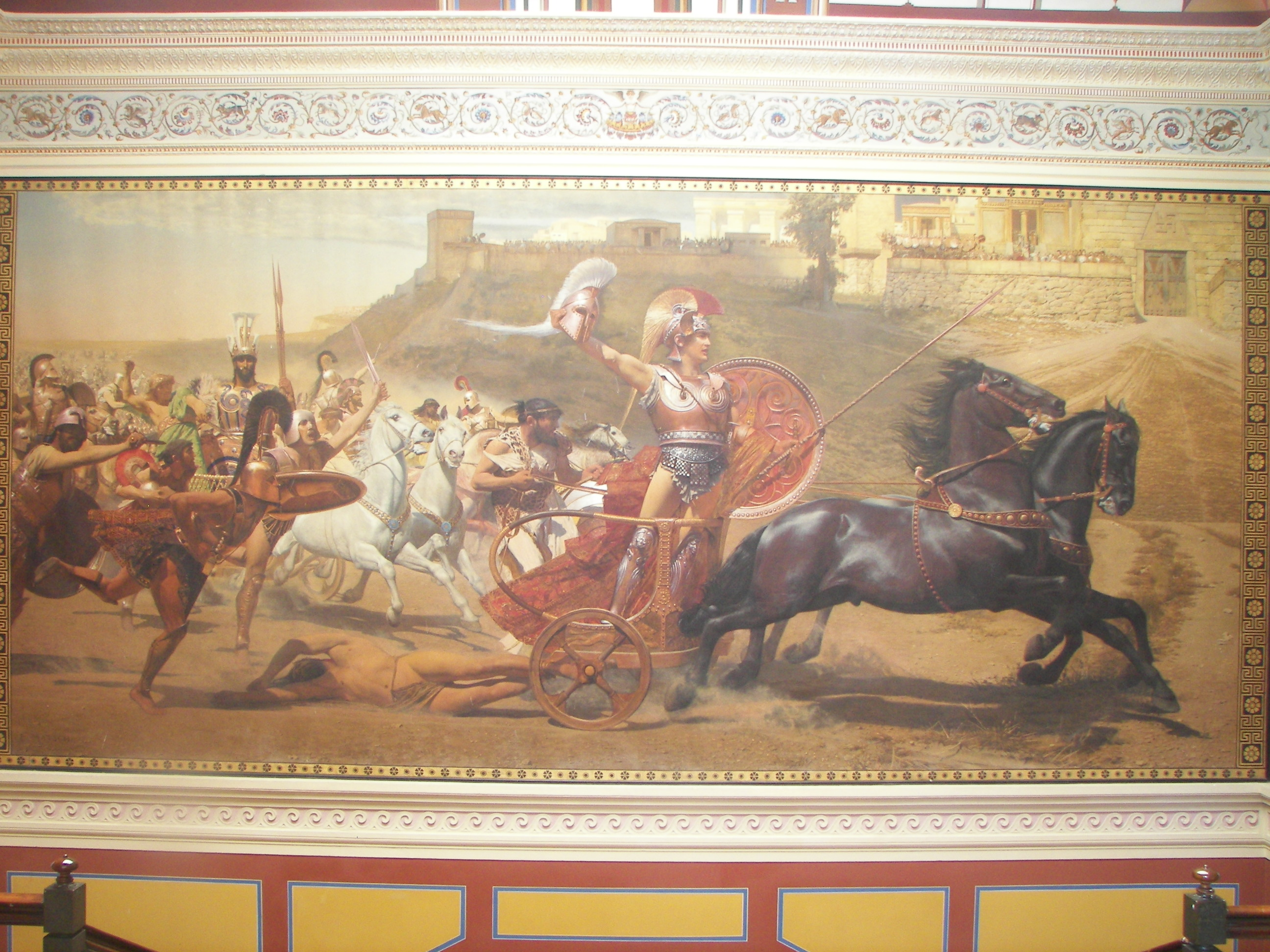 Achilles dragging the dead body of Hector in front of the gates of Troy. The original painting is a fresco on the upper level of the main hall of the Achilleion at Corfu, Greece.